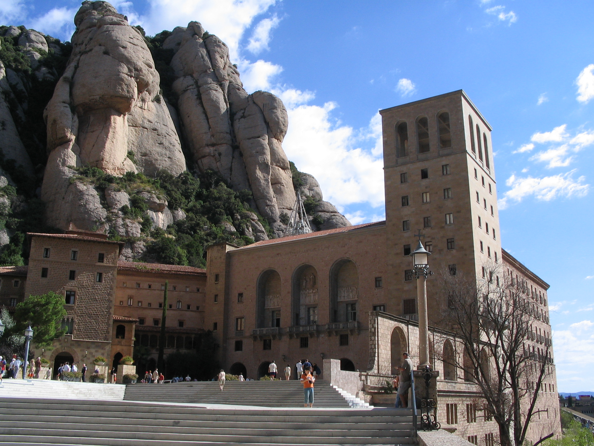 View of the monastery at Montserrat.